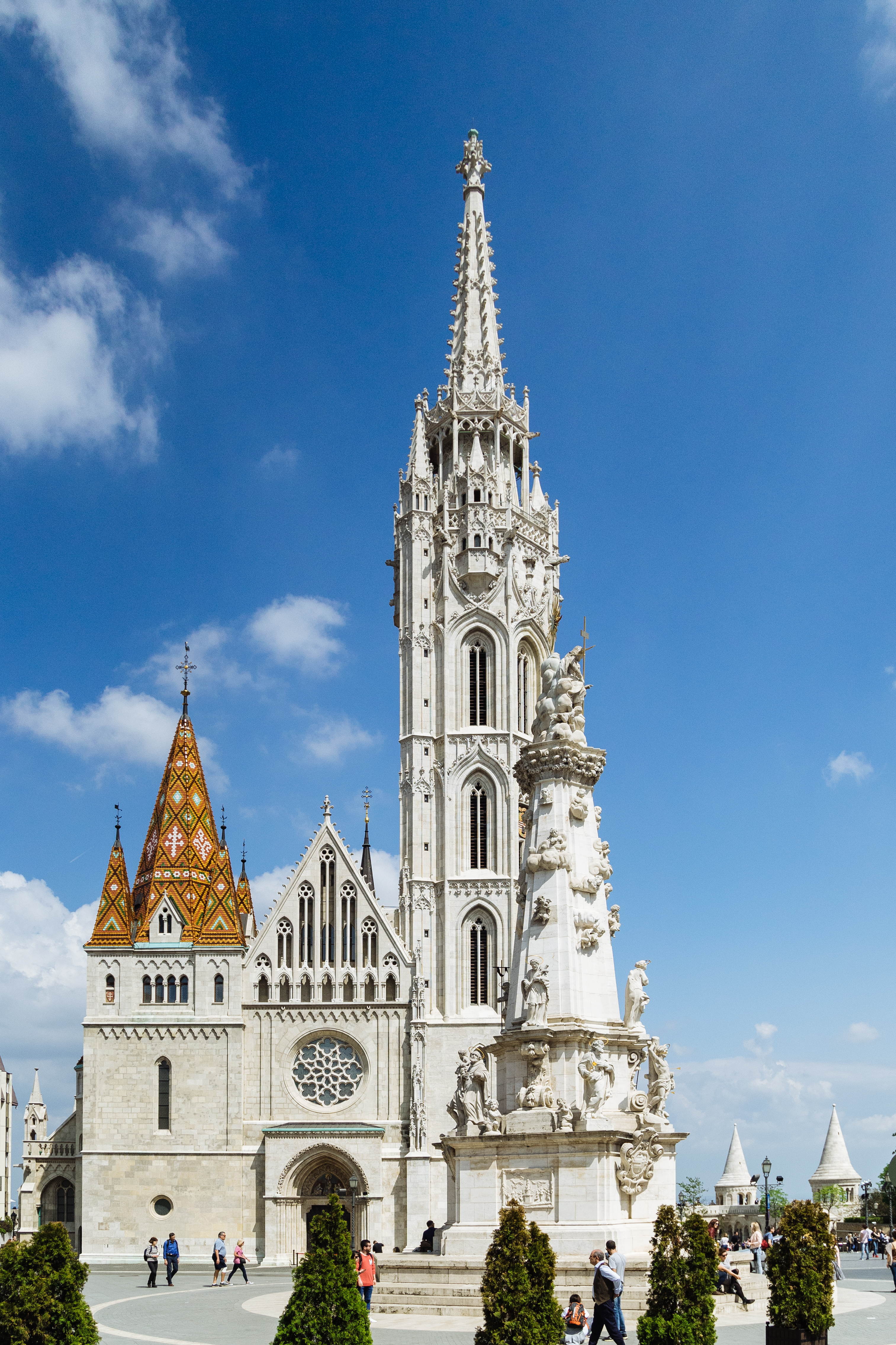 Matthias Church in Buda's Castle District, Budapest, 2017.